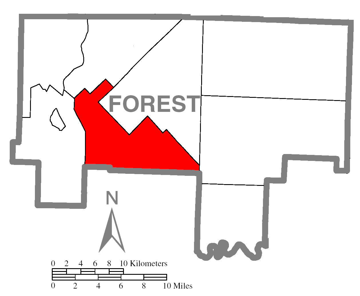 A map of Forest County showing Green Township, Pennsylvania (alternate) highlighted on the map.